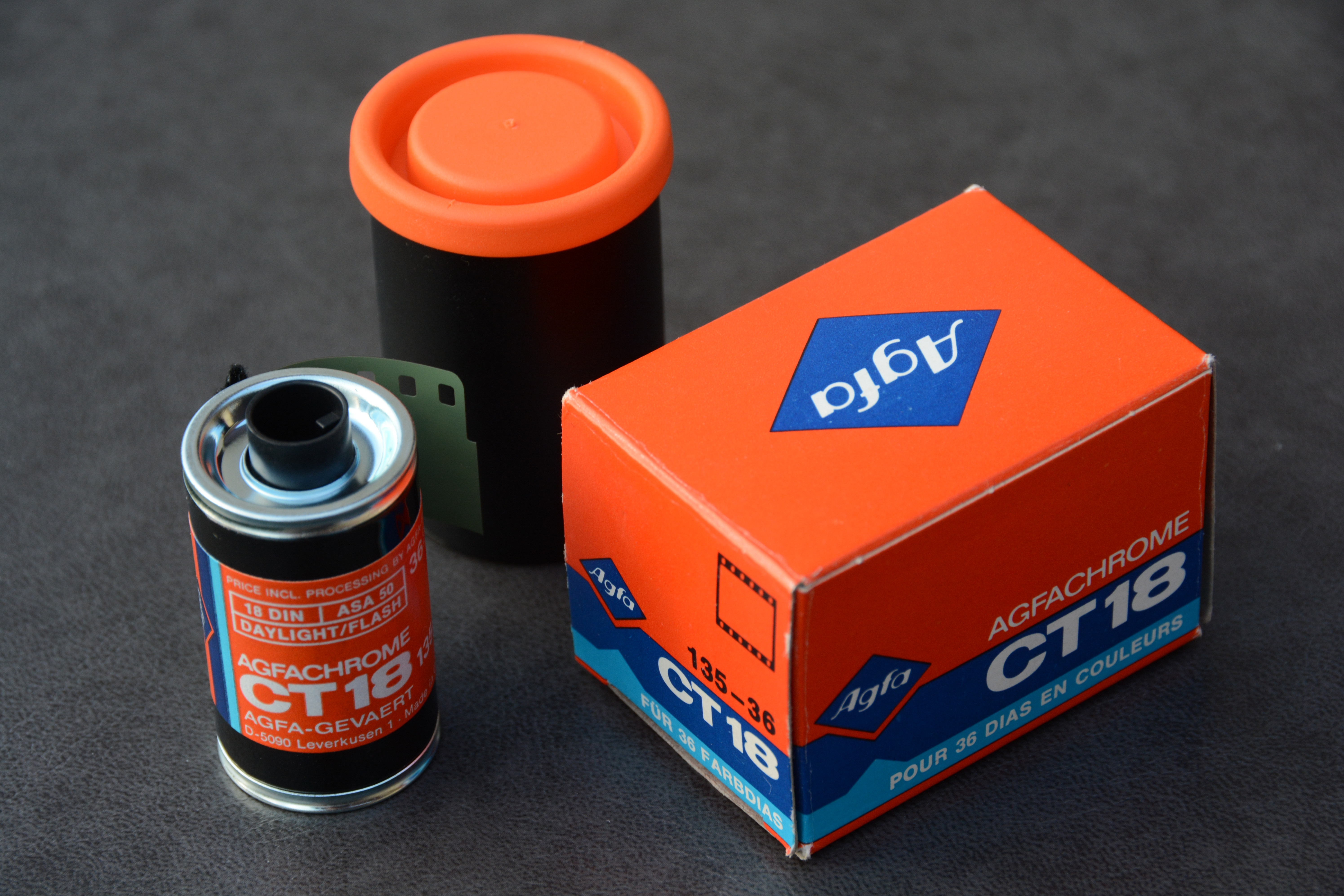 Agfa Agfachrome CT18 film for colour slides with original box (expiration date Jan. 1981)